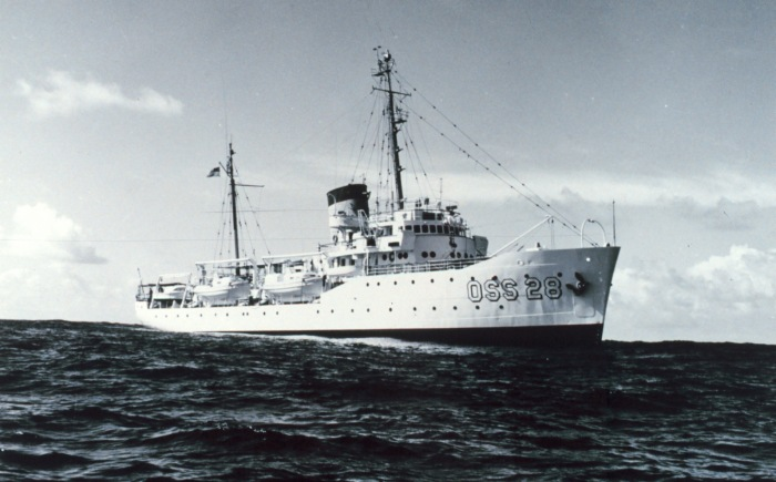 The United States Coast and Geodetic Survey "ocean survey ship" (OSS) USC&GS Explorer (OSS 28) underway in the Atlantic Ocean.